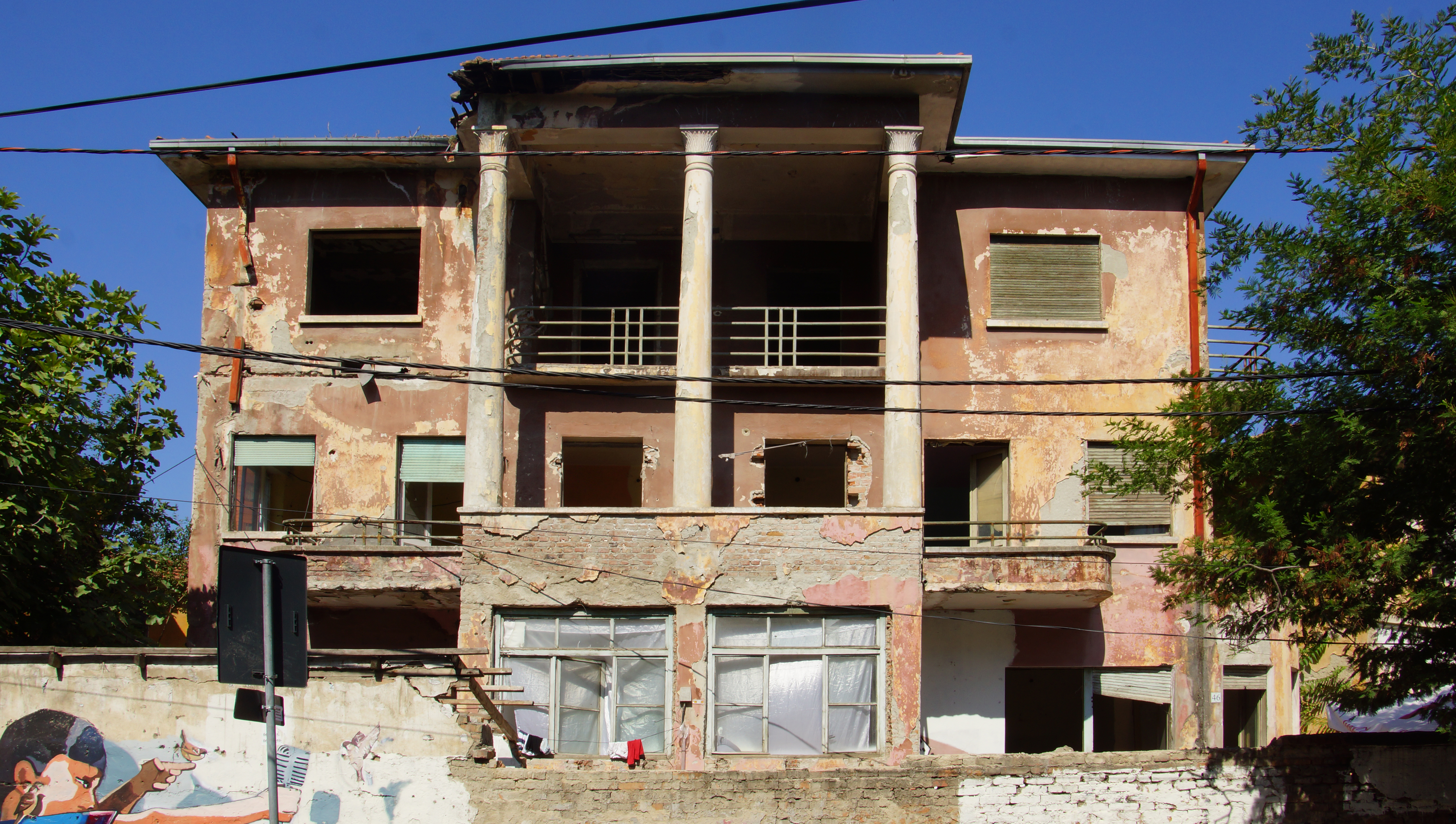 Villa of the former Radio Tirana